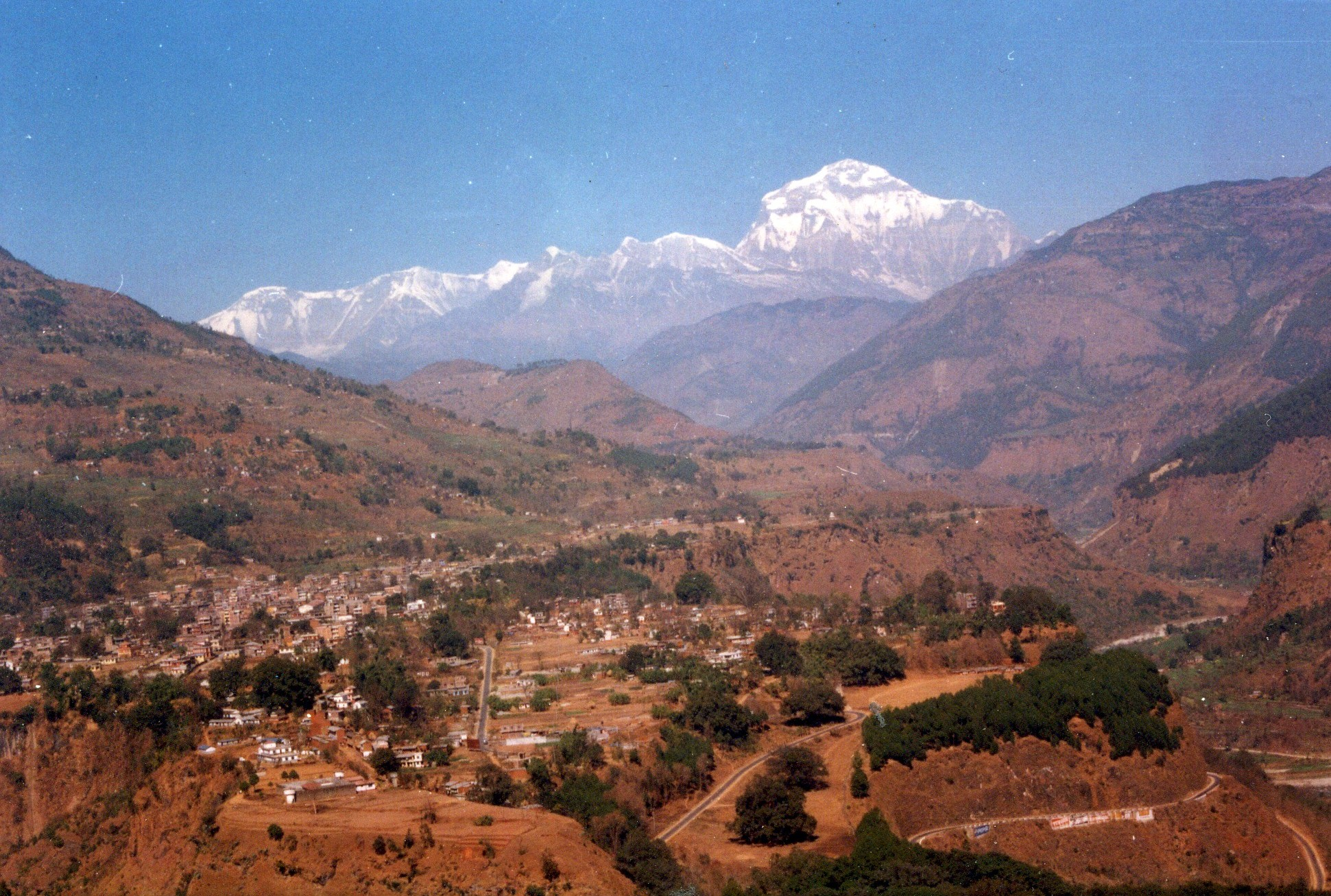 Baglung seen from Bhakunde Village development committee with views of Mount Dhaulagiri